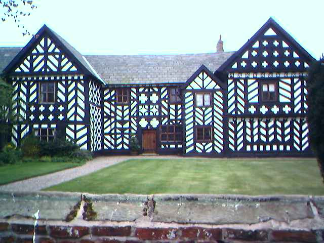 Haslington Hall photographed April 2006